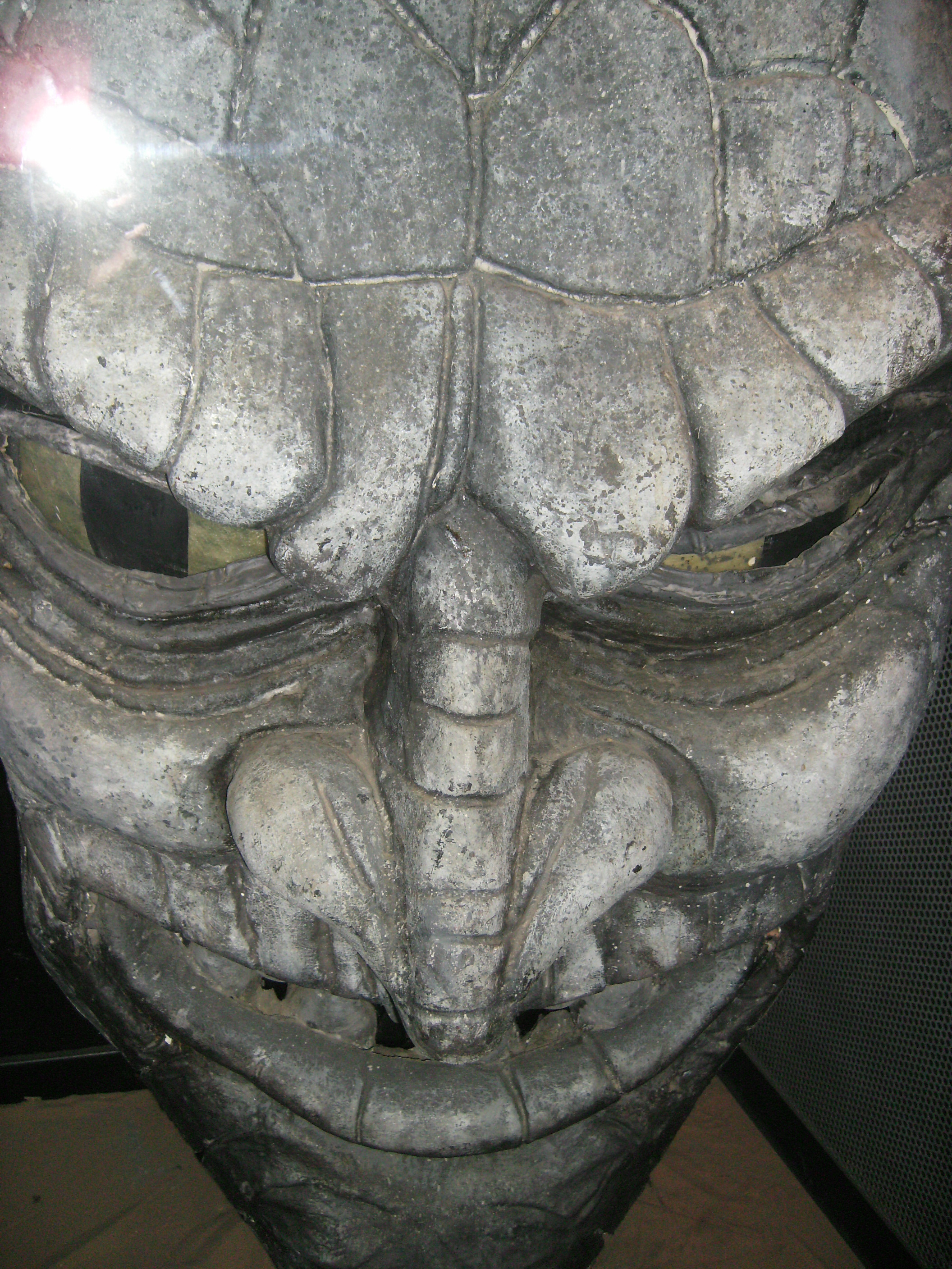 From a Peter Davison story Doctor Who Experience